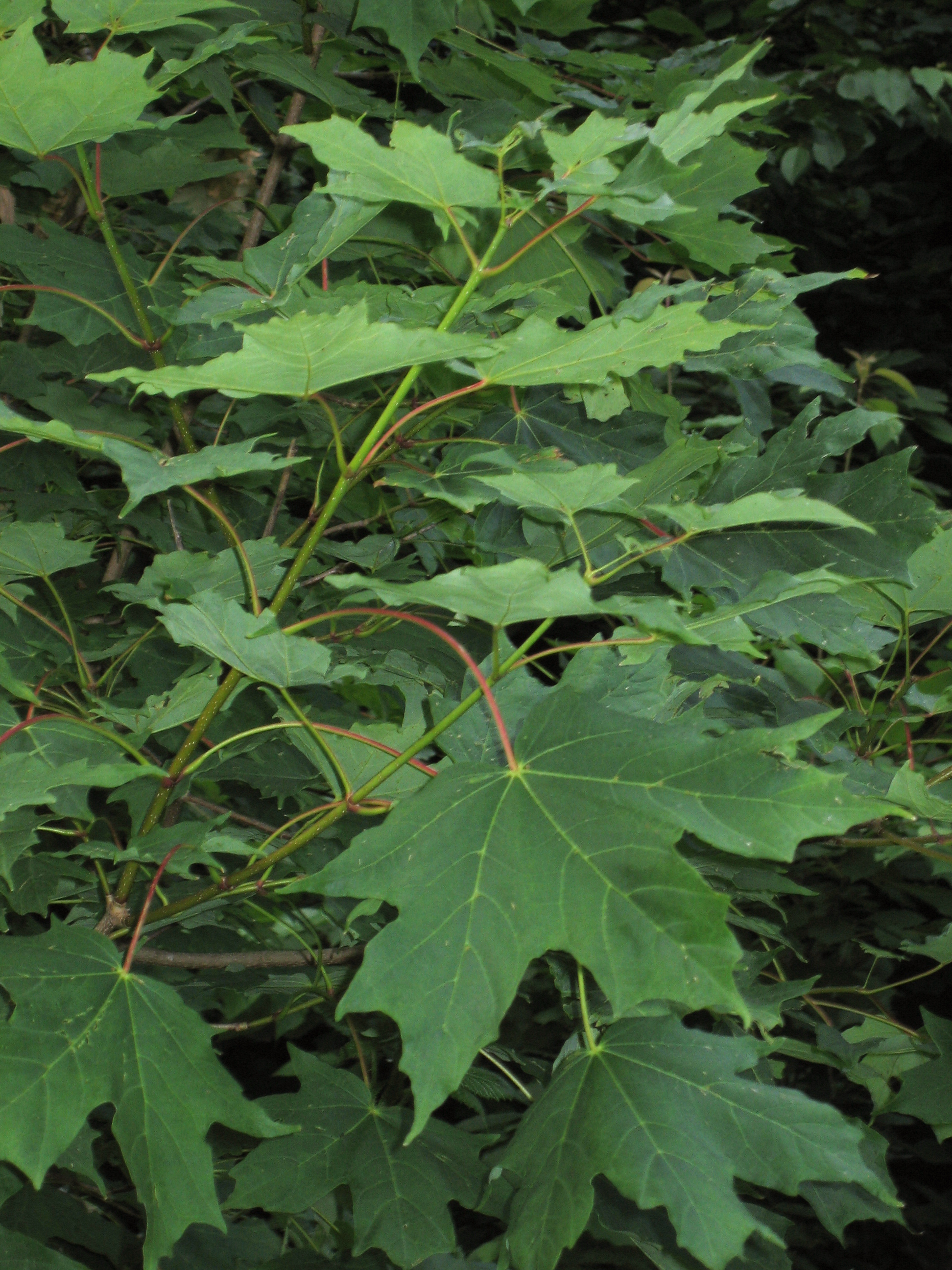 Acer saccharum foliage. Cultivated, Newcastle, Northumberland, UK (seed origin Milwaukee, Wisconsin). June 2005.